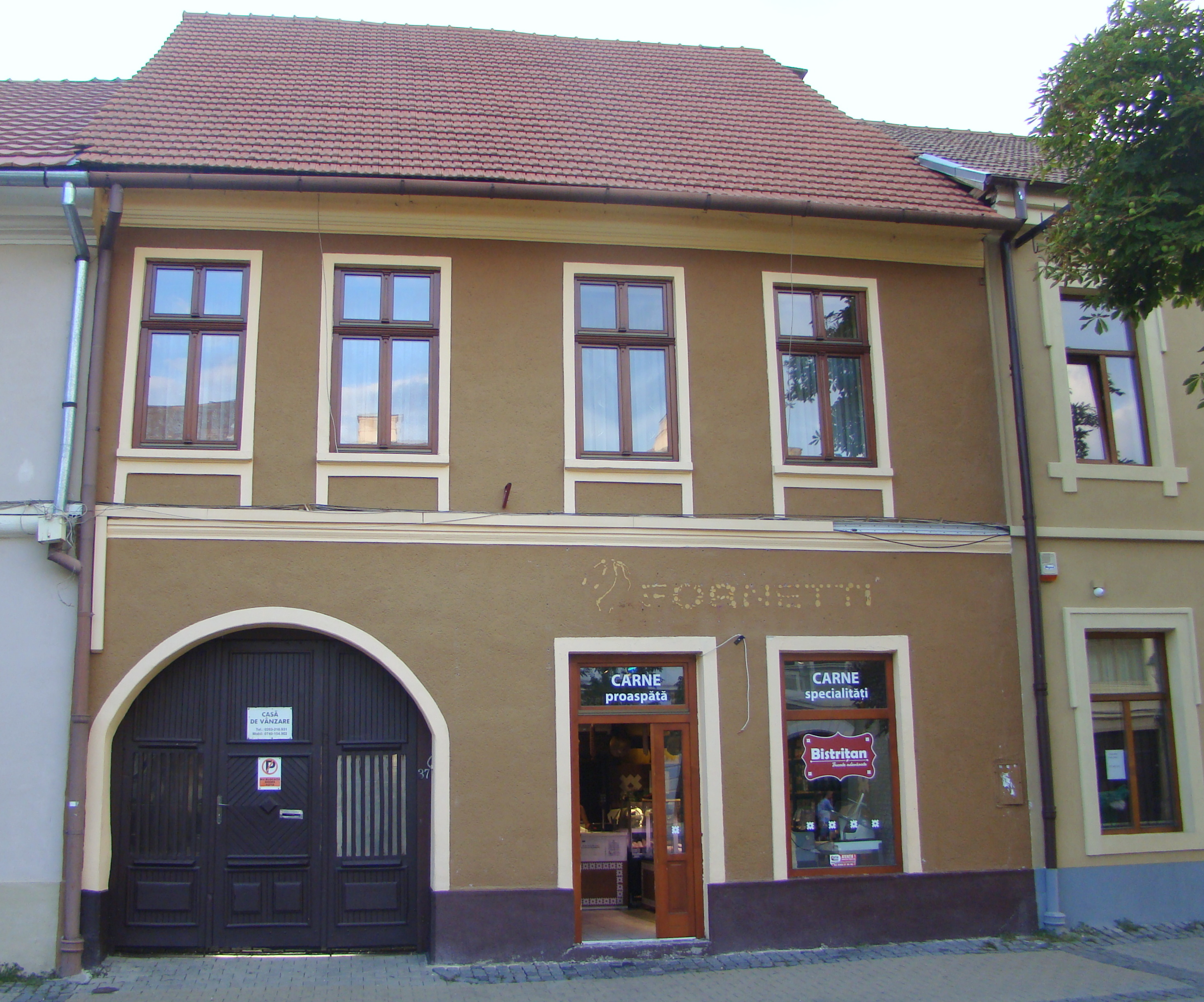 House, historic monument, in Bistrița, Liviu Rebreanu street 37